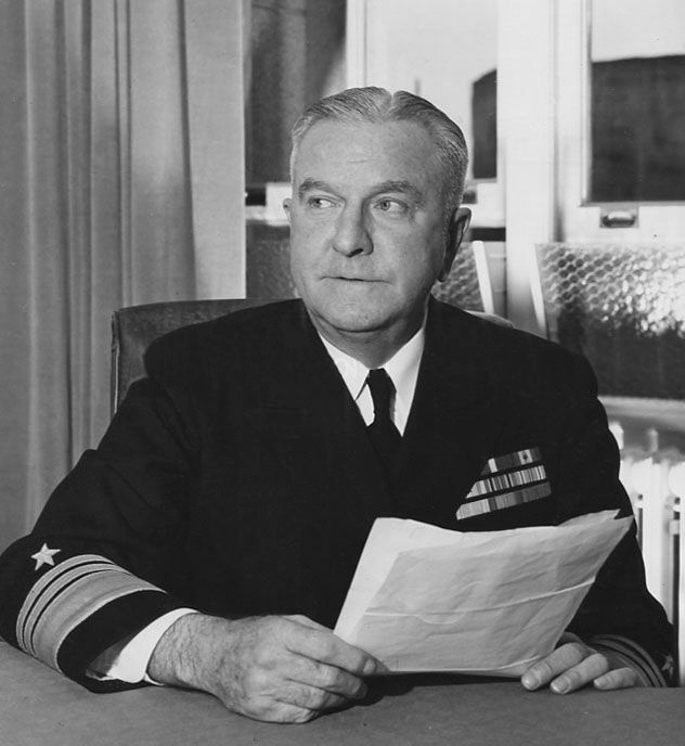 VADM David Worth Bagley, USN